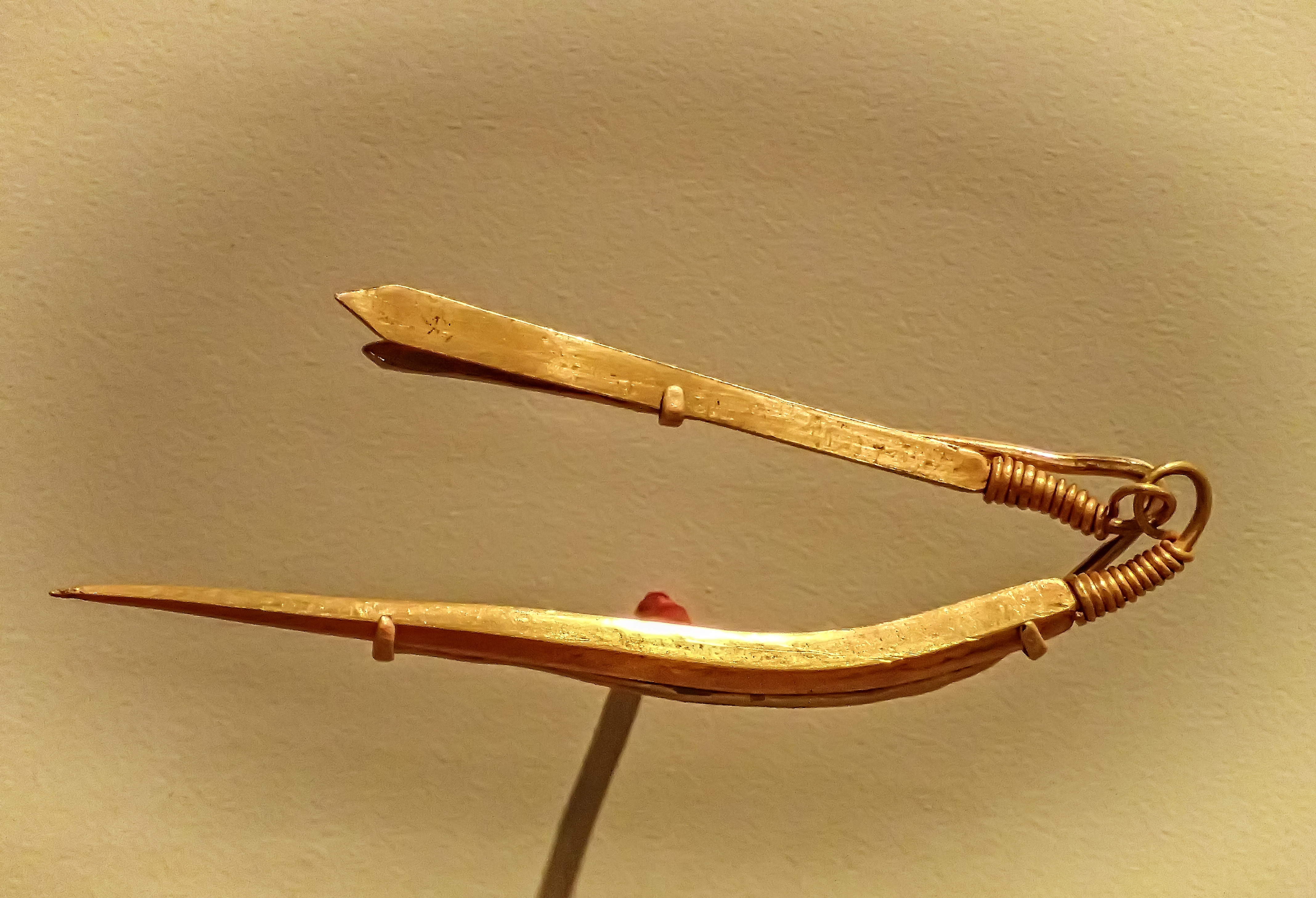 Gold tweezers recovered from the royal cemetery of Ur, Iraq 2550-2450 BCE Photographed at the University of Pennsylvania Museum of Archaeology and Anthropology (Penn Museum) in Philadelphia, Pennsylvania.